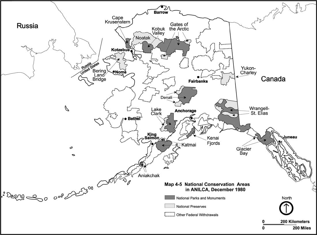 National Conservation Areas of the United States established by the the Alaska National Interest Lands Conservation Act (ANILCA) in Alaska — in December 1980.